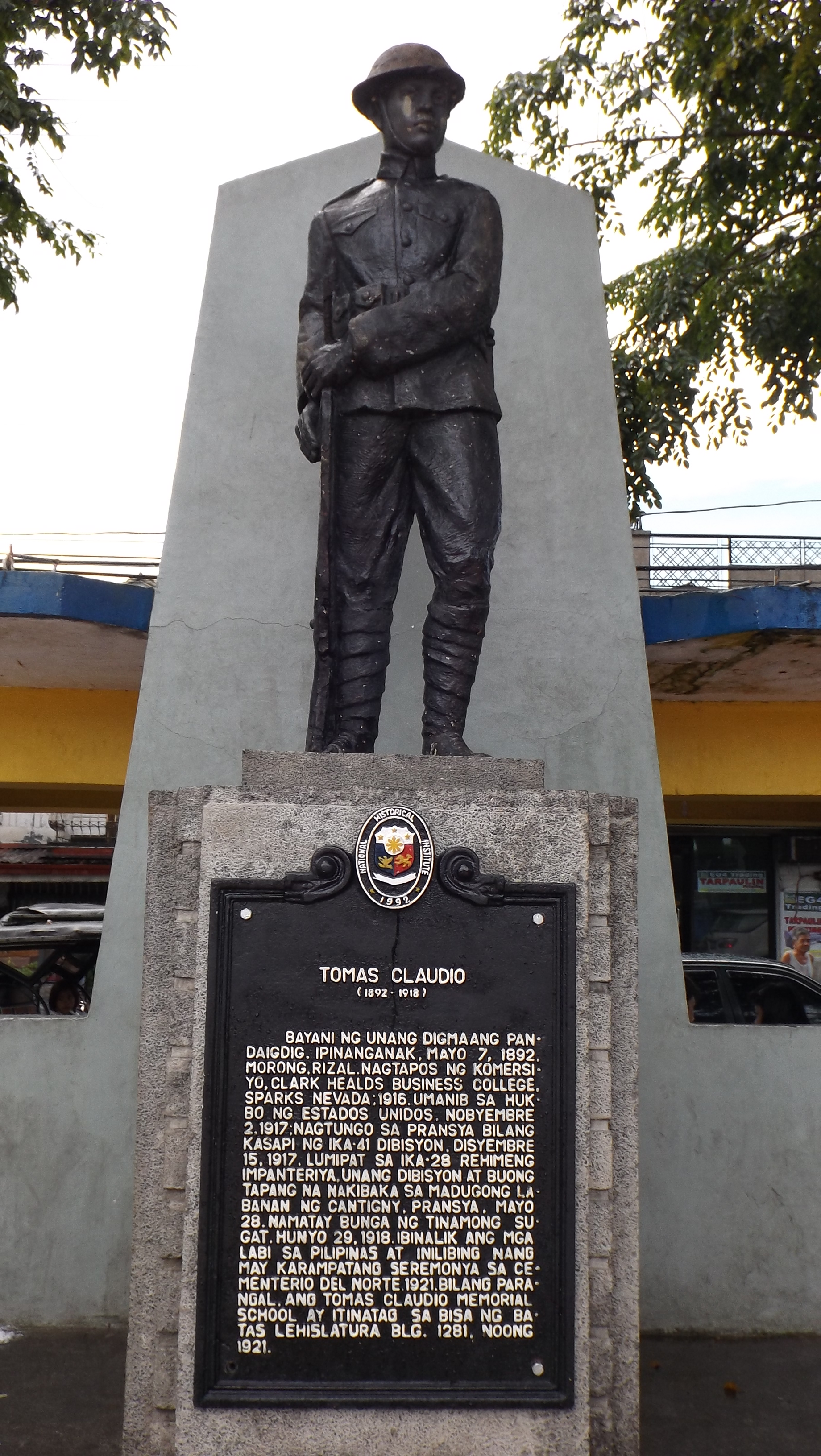 erected in the town plaza